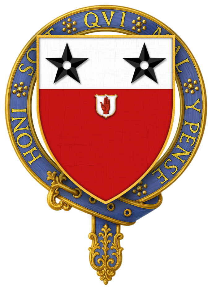 Garter-encircled arms of Sir Edmund Bacon, 13th Baronet, KG, as displayed on his Order of the Garter stall plate, viz. Gules on a chief argent, two mullets pierced sable.